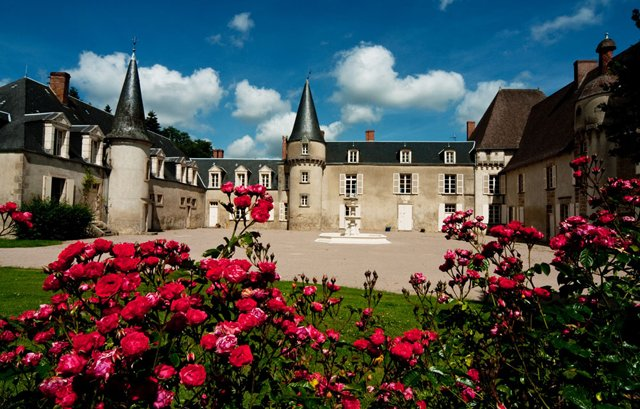 Photo of Chateau de Lalande